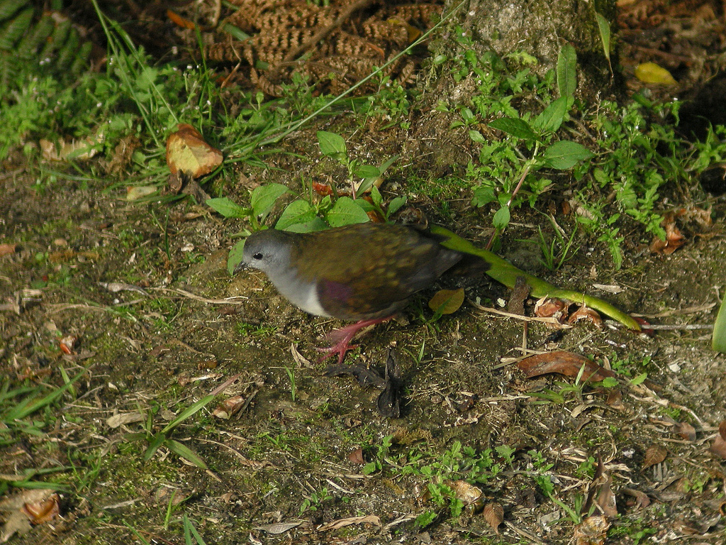 Bronze Ground-dove (Gallicolumba beccarii). Possibly Papua New Guinea.